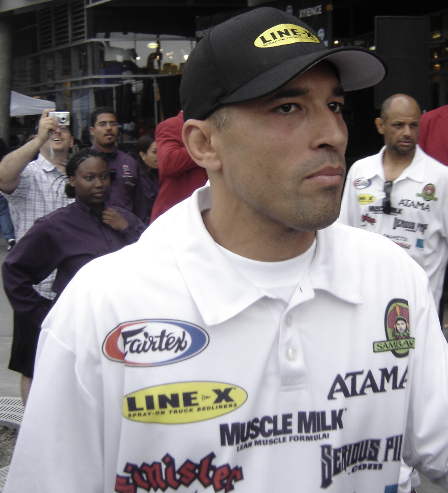 Author: Jenn Gilbraith, who agreed to license this image under the terms of the Creative Commons Attribution-ShareAlike 3.0 license. Permission is on file with the WMF.